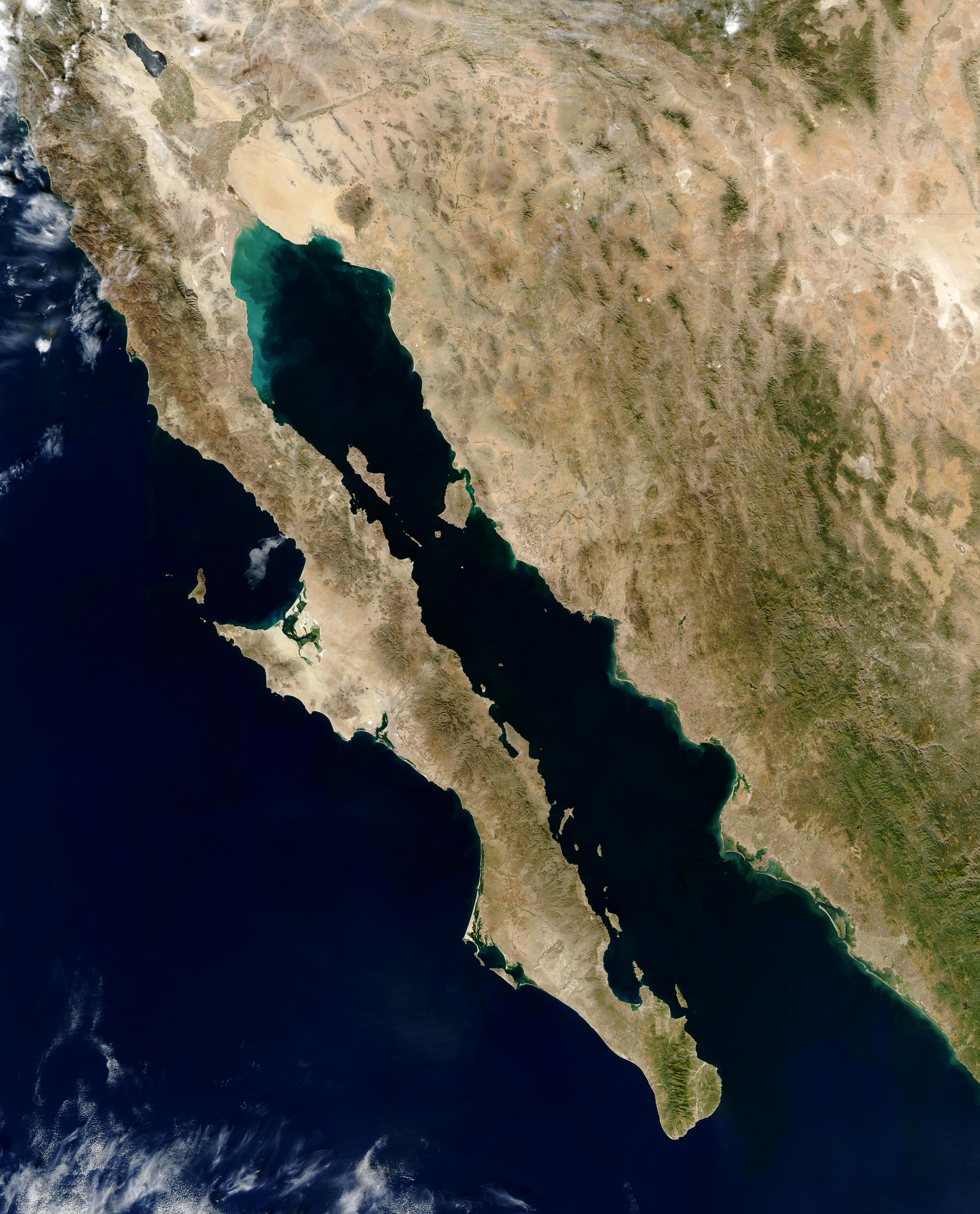 Baja peninsula (Mexico) 250m, Gulf of California